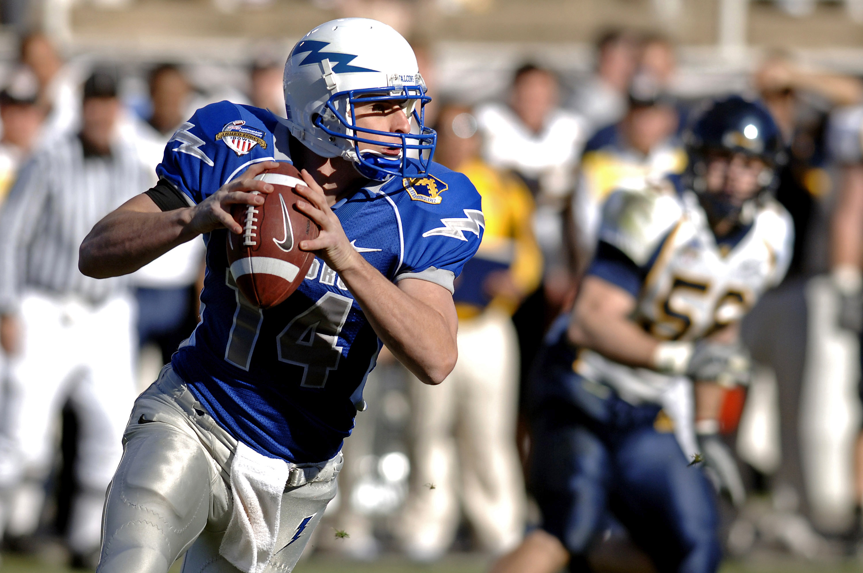 Shea Smith, the former quarterback of the Air Force Falcons, looks to pass during the 2007 Armed Forces Bowl.